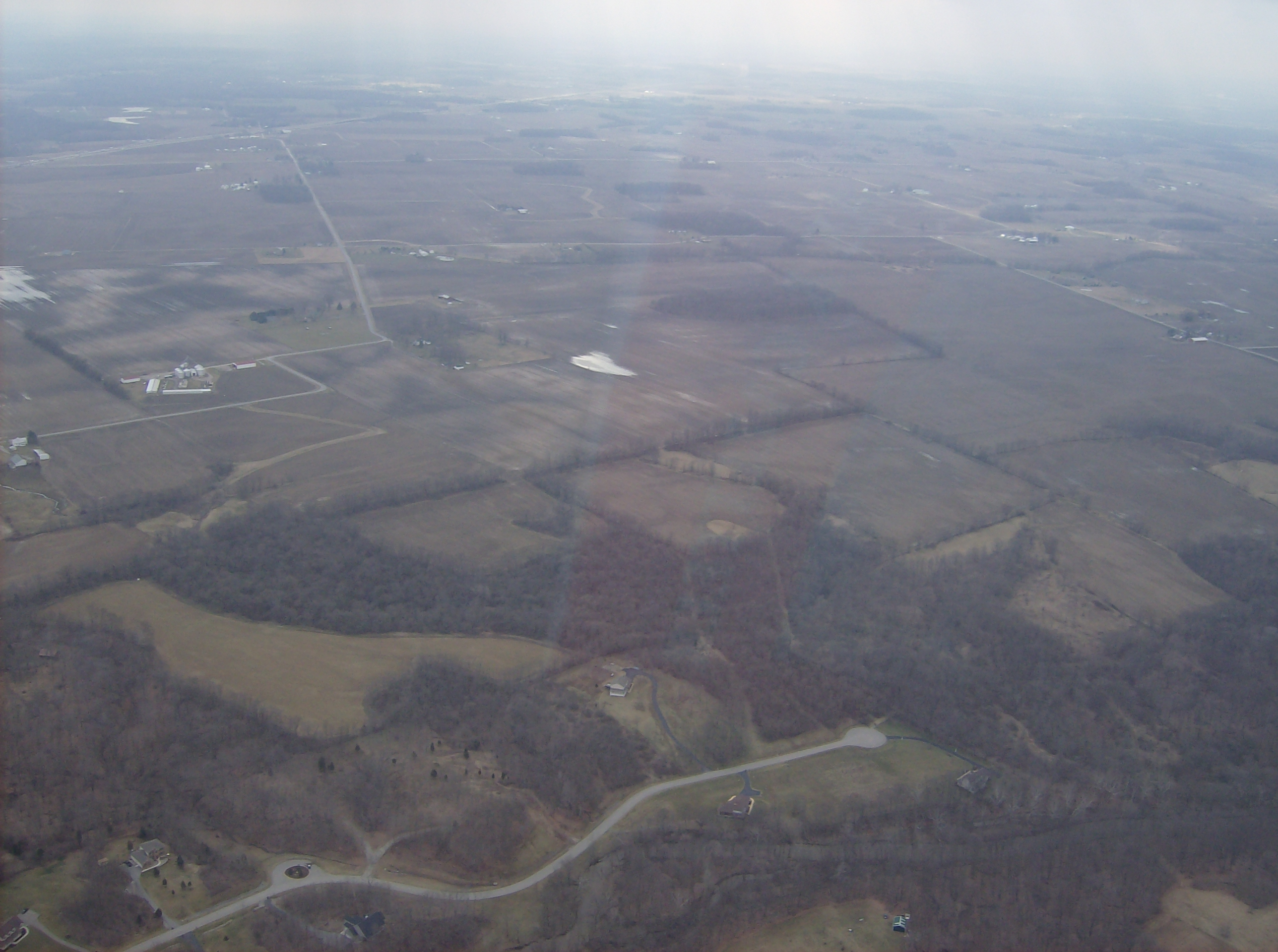 Countryside in southern Liberty Township, Clinton County, Ohio, United States. Picture taken from a Diamond Eclipse light airplane at an altitude of 2,700 feet MSL and a bearing of approximately 237º.